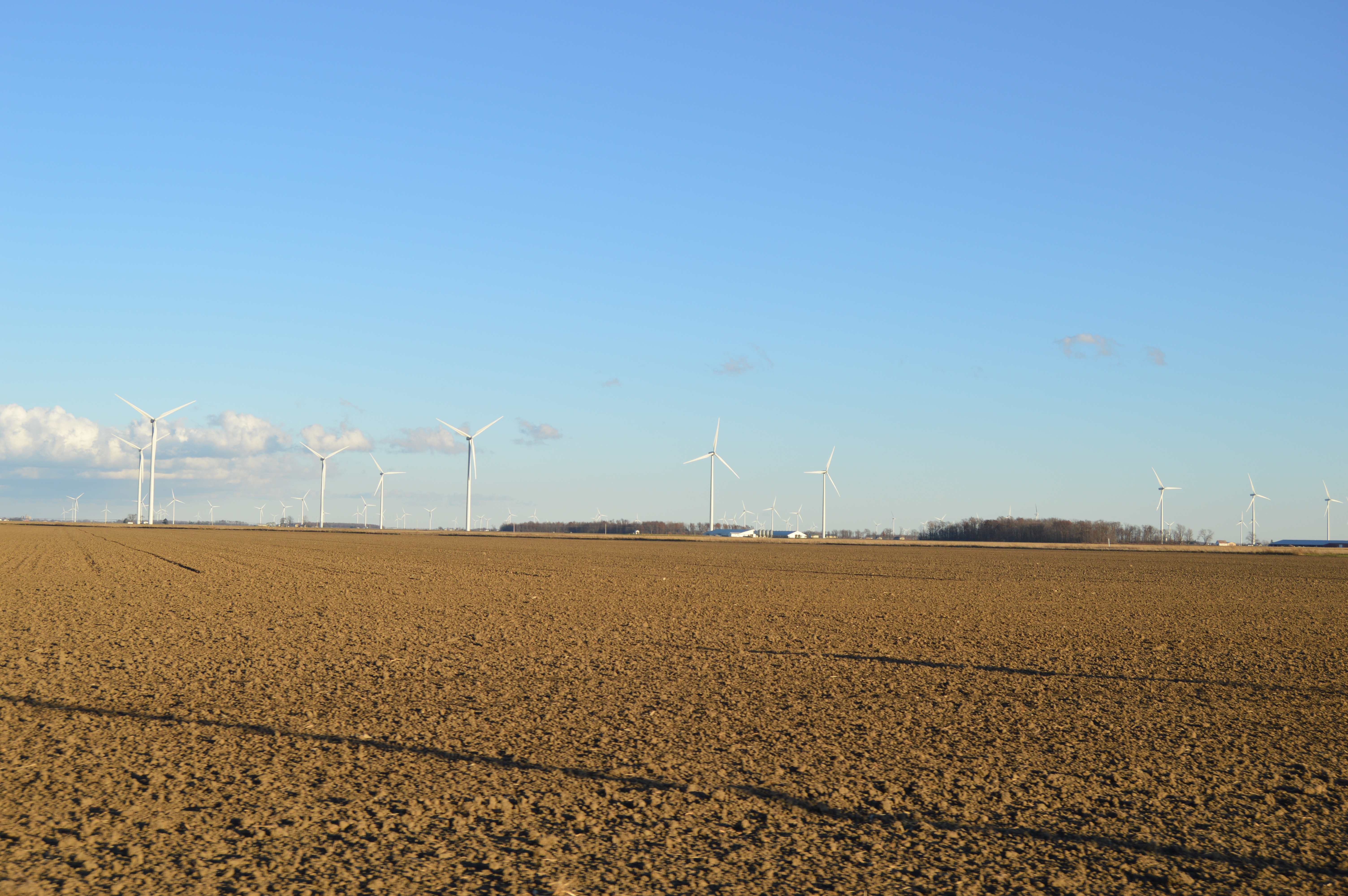 Fields east of Convoy-Heller Road in far northern Tully Township, Van Wert County, Ohio, United States.